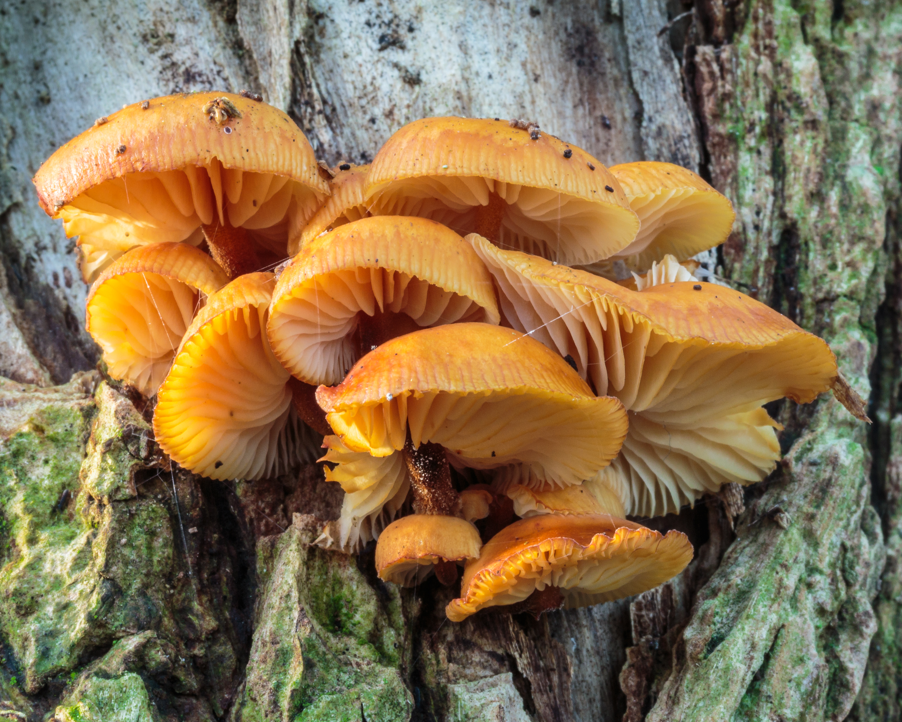 Enokitake Flammulina velutipes. After rain, little Enokitake mushrooms on the dead wood of an elder (Sambucus nigra).